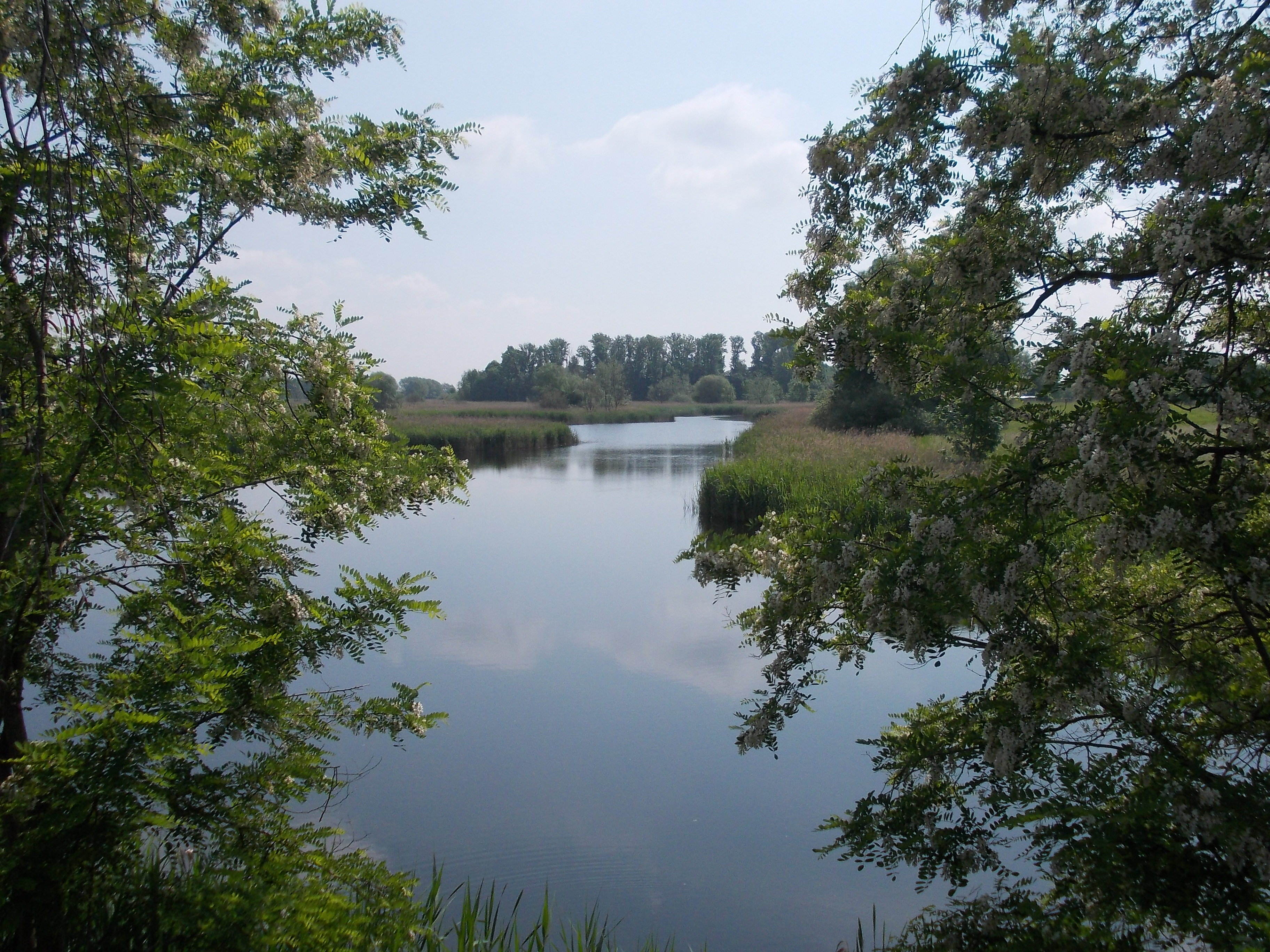 Kulkwitzer Lachen ("Kulkwitz Puddles"), a nature reserve (Markranstädt, Leipzig district, Saxony)